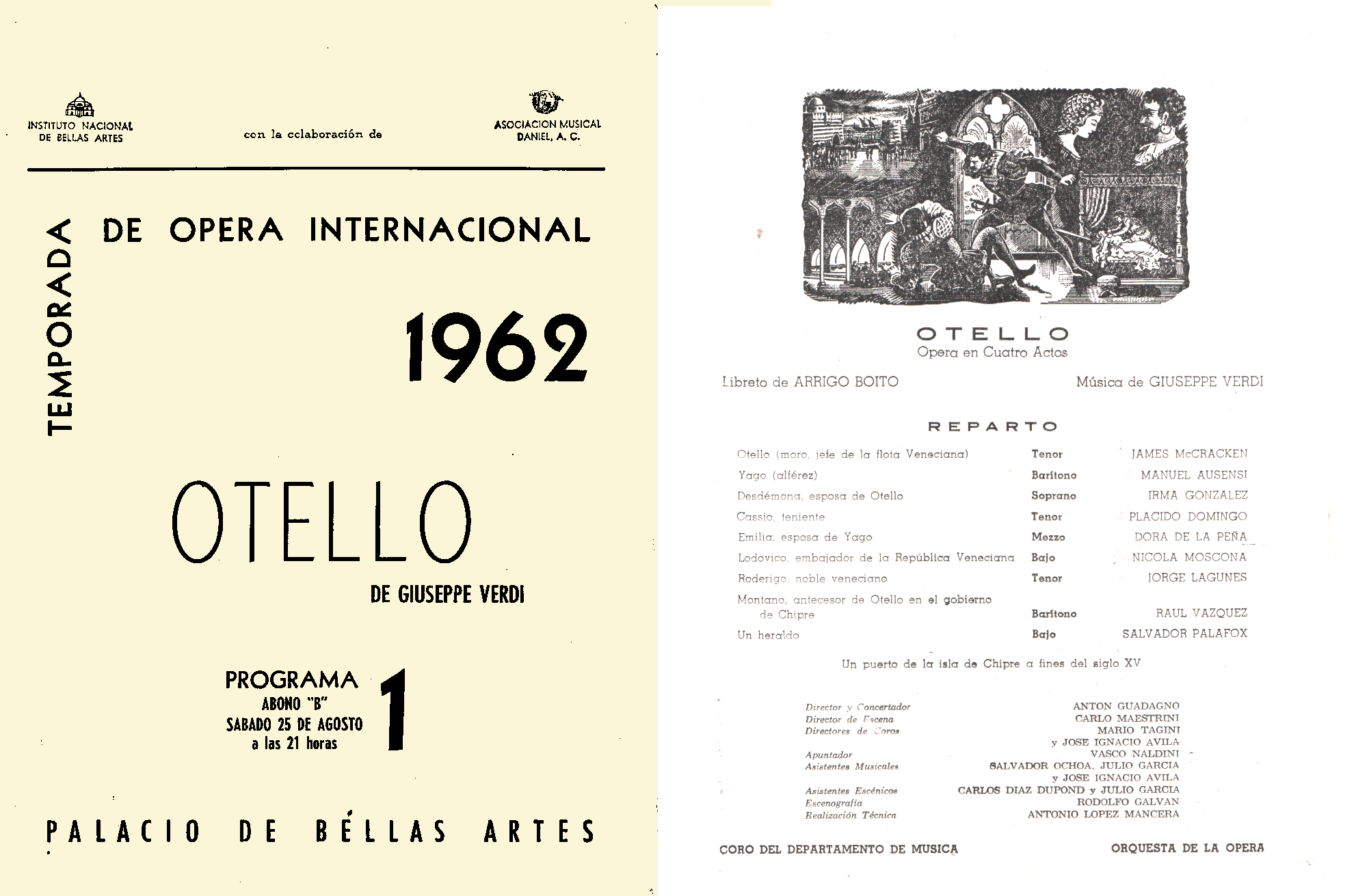 Program cover and cast page for a performance of Verdi's opera "Otello" at the Palacio de Béllas Artes in México City, México on August 25, 1962, featuring a then 21-year old Placido Domingo in the comprimario rôle of Cassio. (19th century PD vignette)